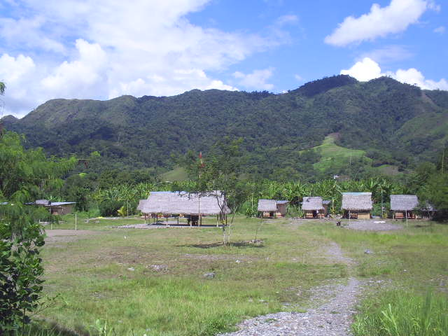 This tropical places is Bena Jema on Amazonia of Perú